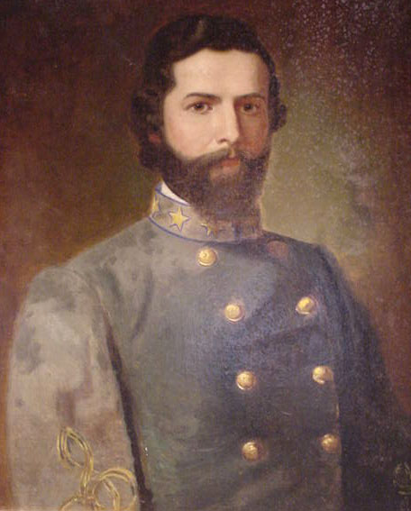 Col. Waller Tazewell Patton of the 7th Virginia Infantry Regiment. Confederate Army Colonel Waller Tazewell Patton, Class of 1855. Patton was mortally wounded at Gettysburg on July 3, 1863, while leading the 7th Virginia Infantry. He was the great-uncle of Gen. George S. Patton, Jr. of World War II fame. The original oil portrait is owned by the Virginia Military Institute.